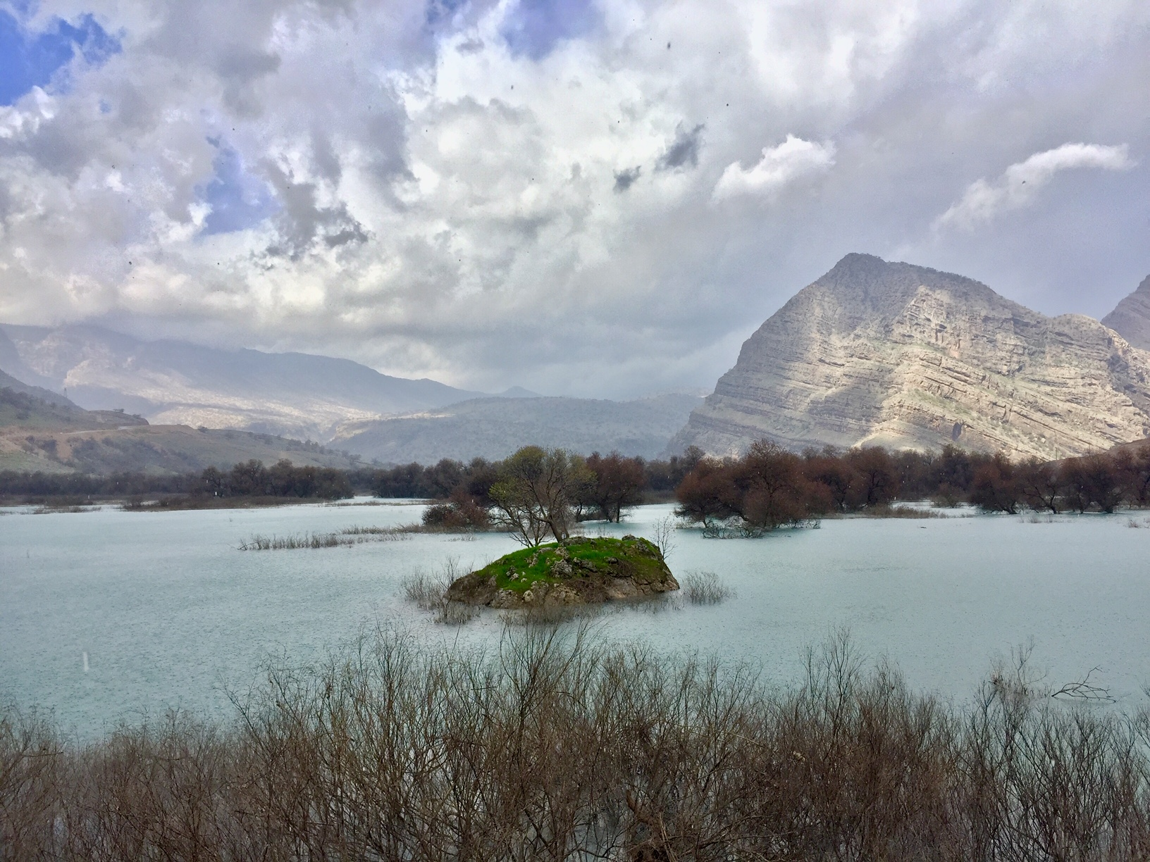 Shimbar protected area, Khuzistan, Iran